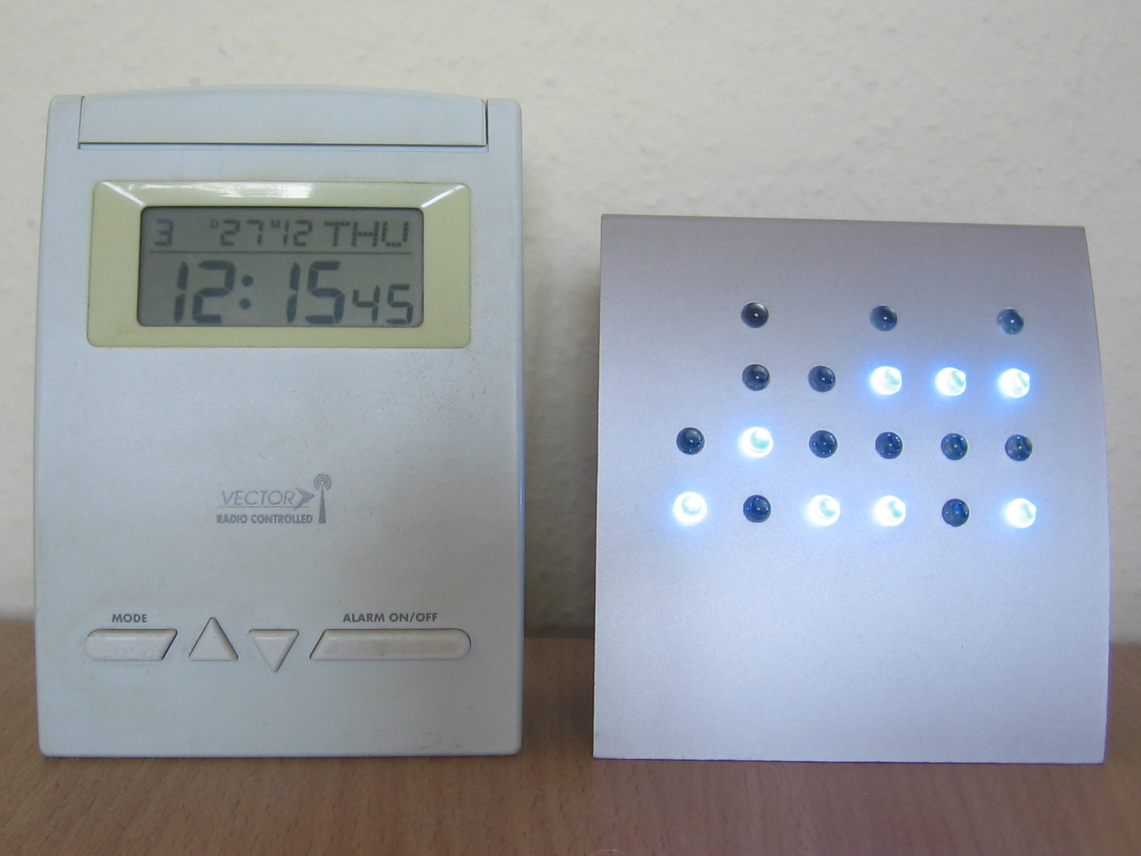 digital clocks: with seven-segment-display-numbers (left) and with binary-coded decimal (BCD) lamps (right)BCD shows here, from left to right (hours to seconds), and from top to bottom:0×2+1×1=1; 0×8+0×4+1×2+0×1=2; 0×4+0×2+1×1=1; 0×8+1×4+0×2+1×1=5; 1×4+0×2+0×1=4; 0×8+1×4+0×2+1×1=5, i.e. 12:15:45